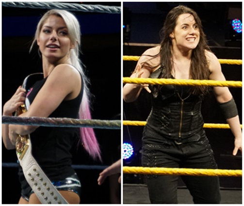 The professional wrestling tag team of Alexa Bliss and Nikki Cross.